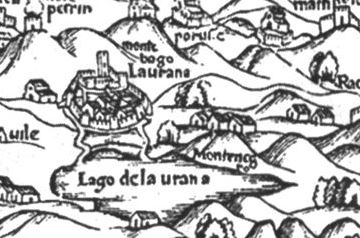 Burg Vrana around 1525 from Pagano's map of Norhtern Dalmatia